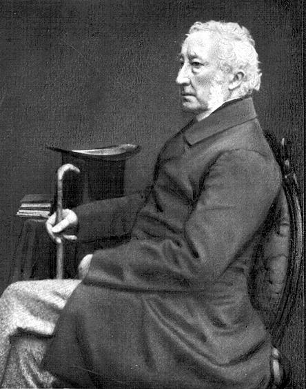 Photo of Charles Stirling of Muiravonside